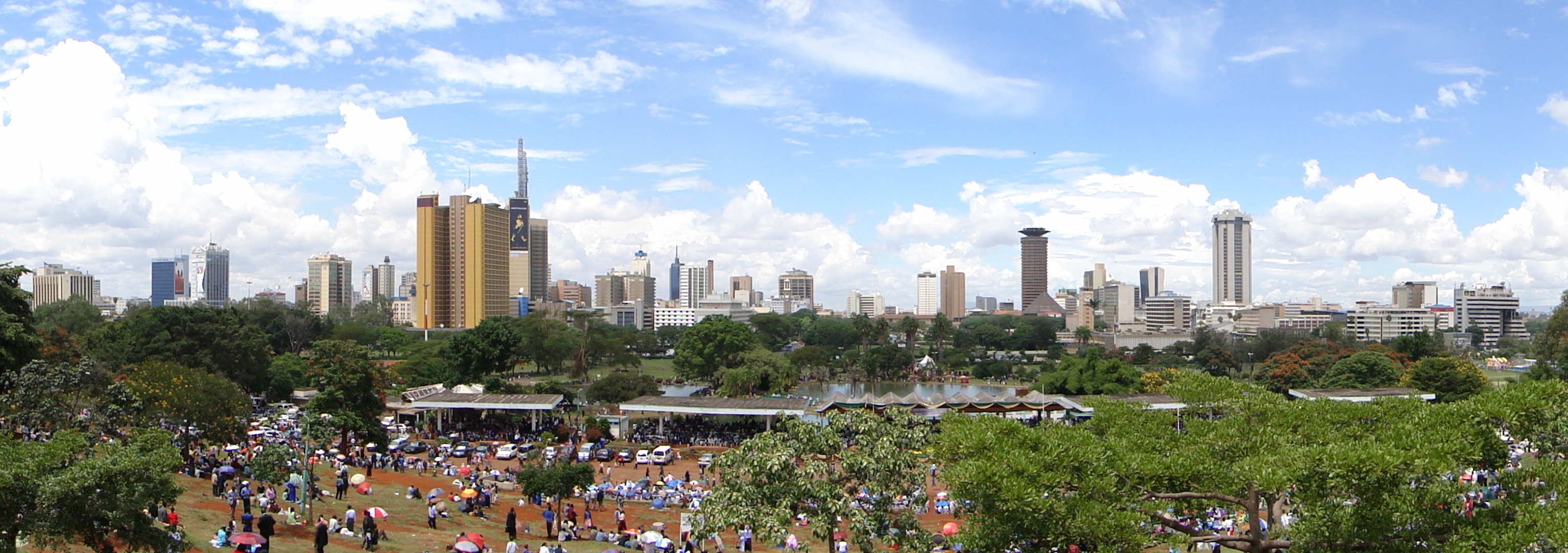 Nairobi panorama viewed from Uhuru Park